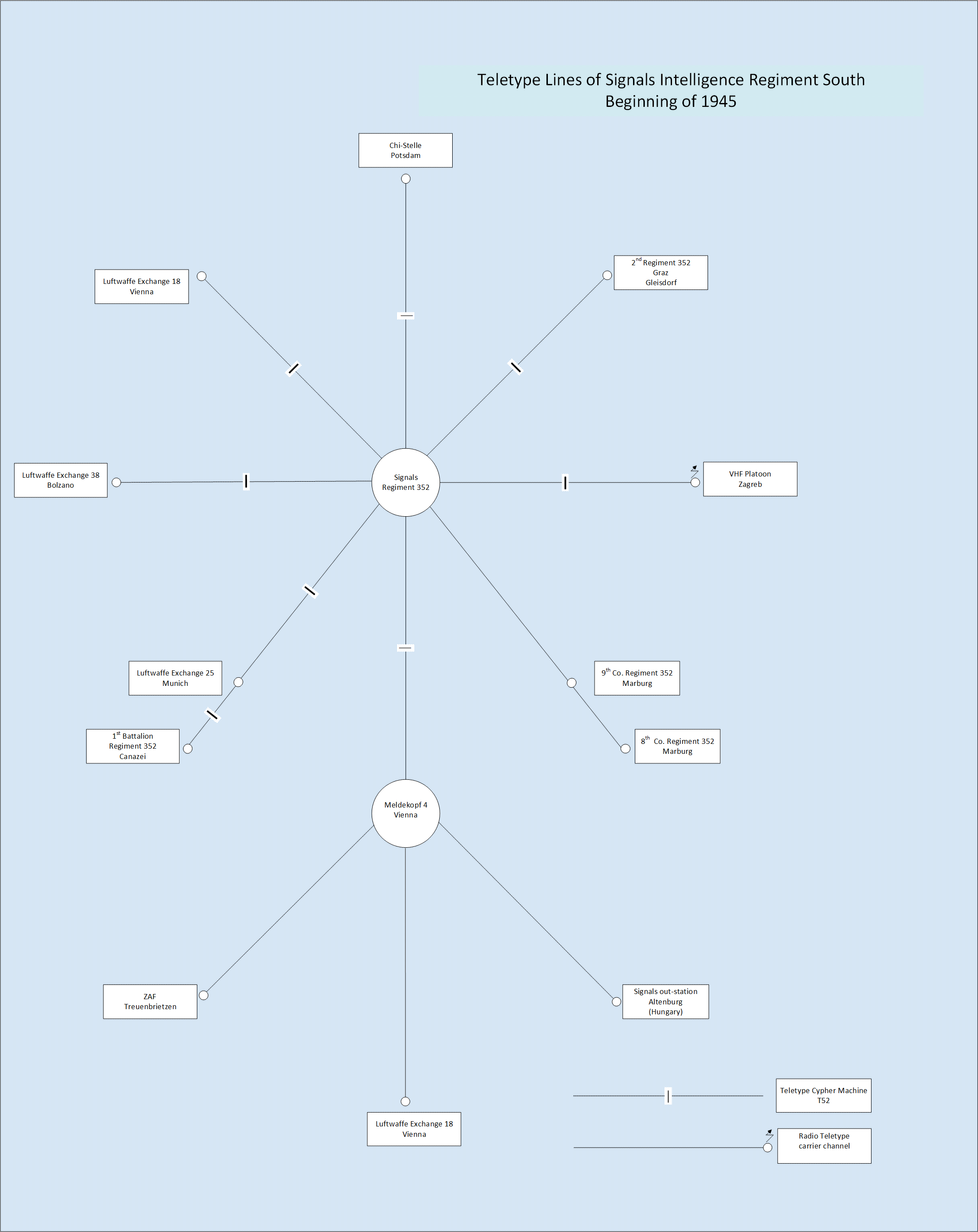 Teletype network used by the Luftwaffe for Regiment 352 during World War II. IF-184 Seabourne Report Vol. IX p.72a